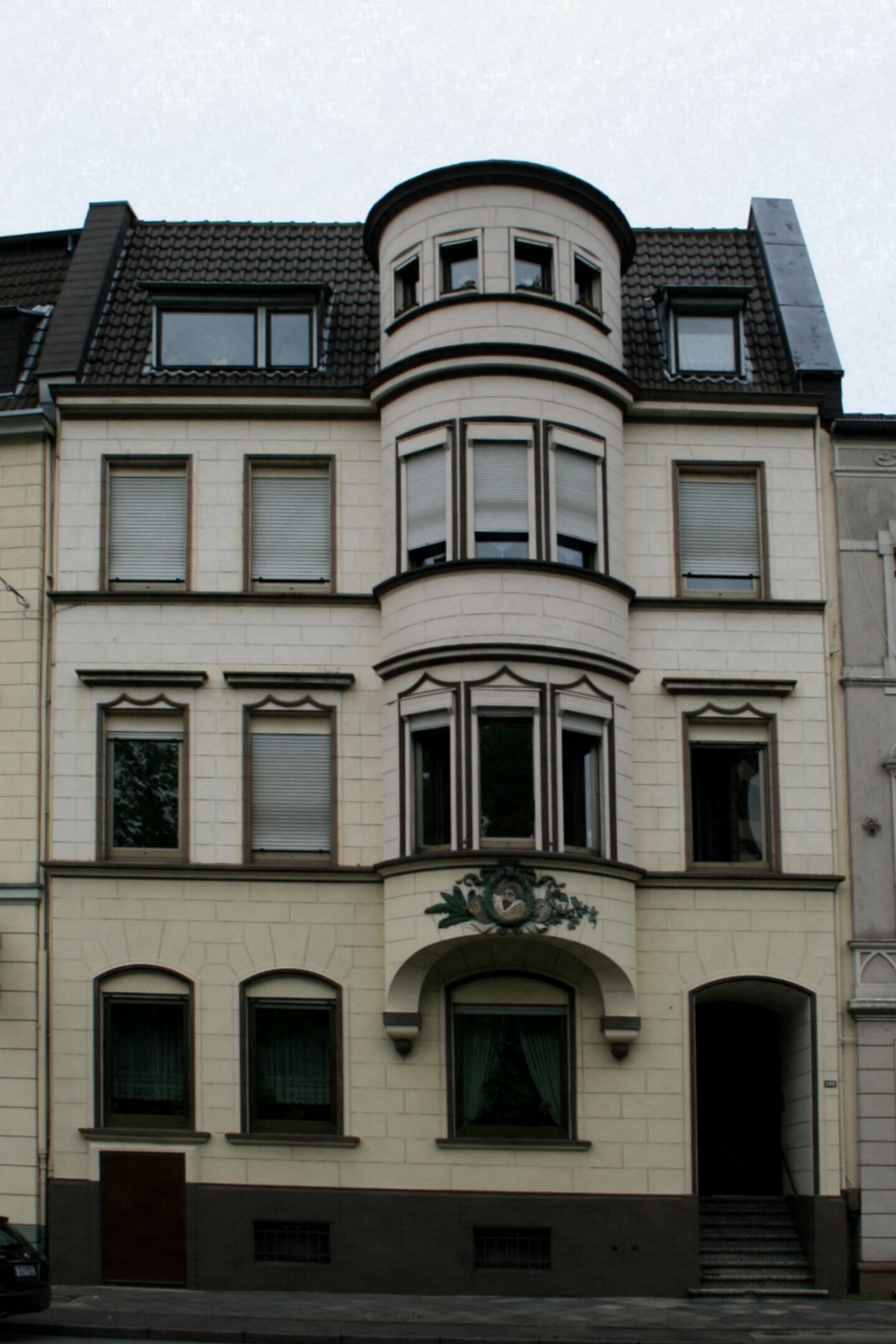 Cultural heritage monument No. V 012 in Mönchengladbach